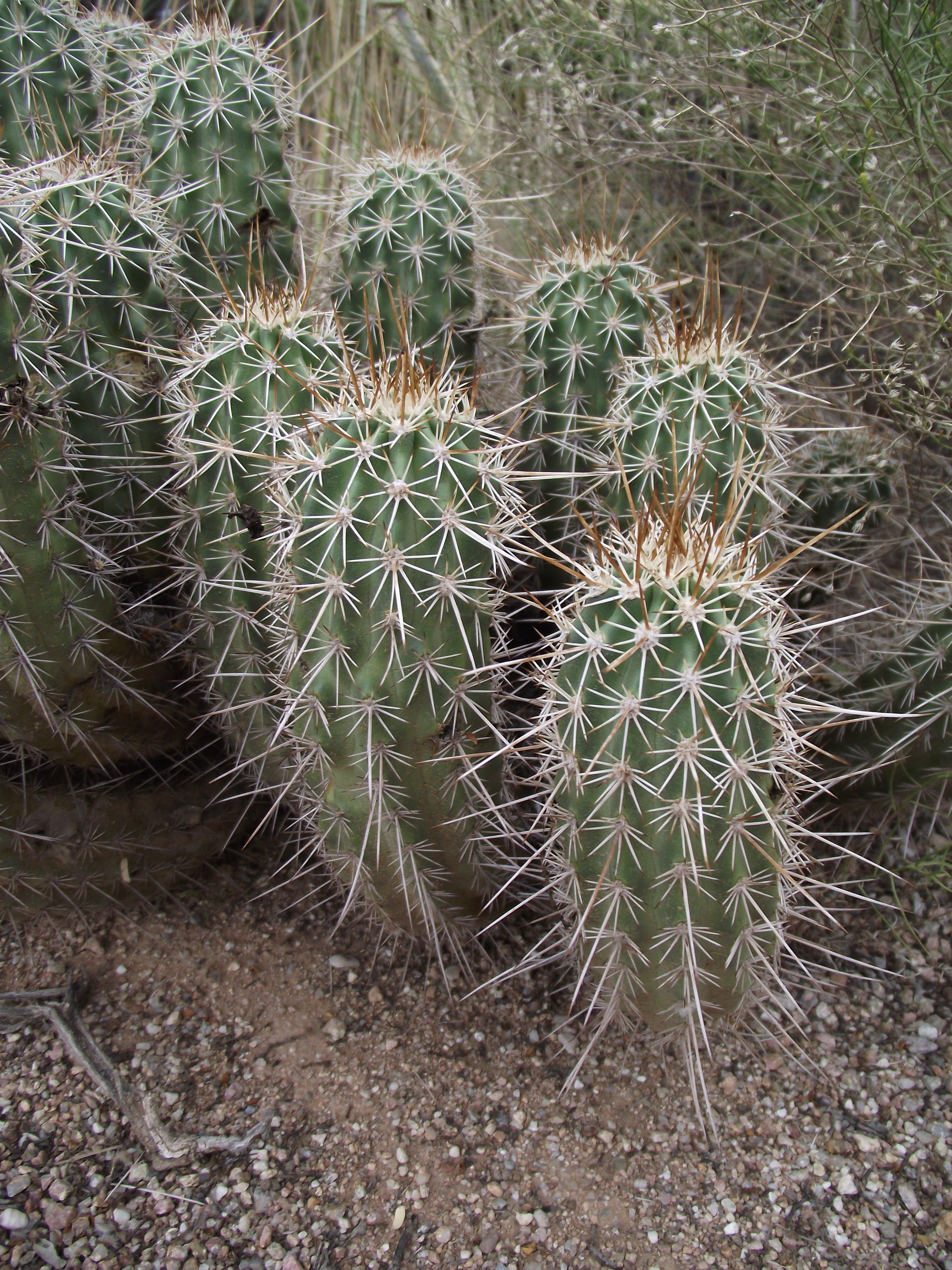 Echinocereus fendleri var. fasciculatus at Tucson Botanical Gardens, Tucson, Arizona, USA. Identified by sign.